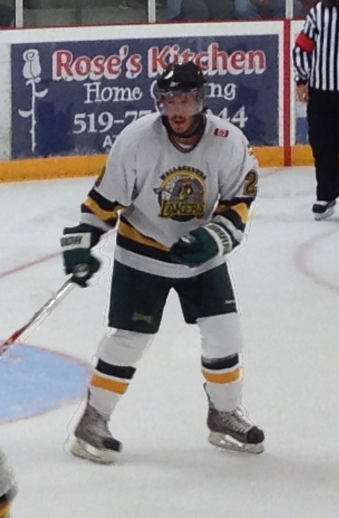 These images of GLJHL action are taken by Devan Mighton.